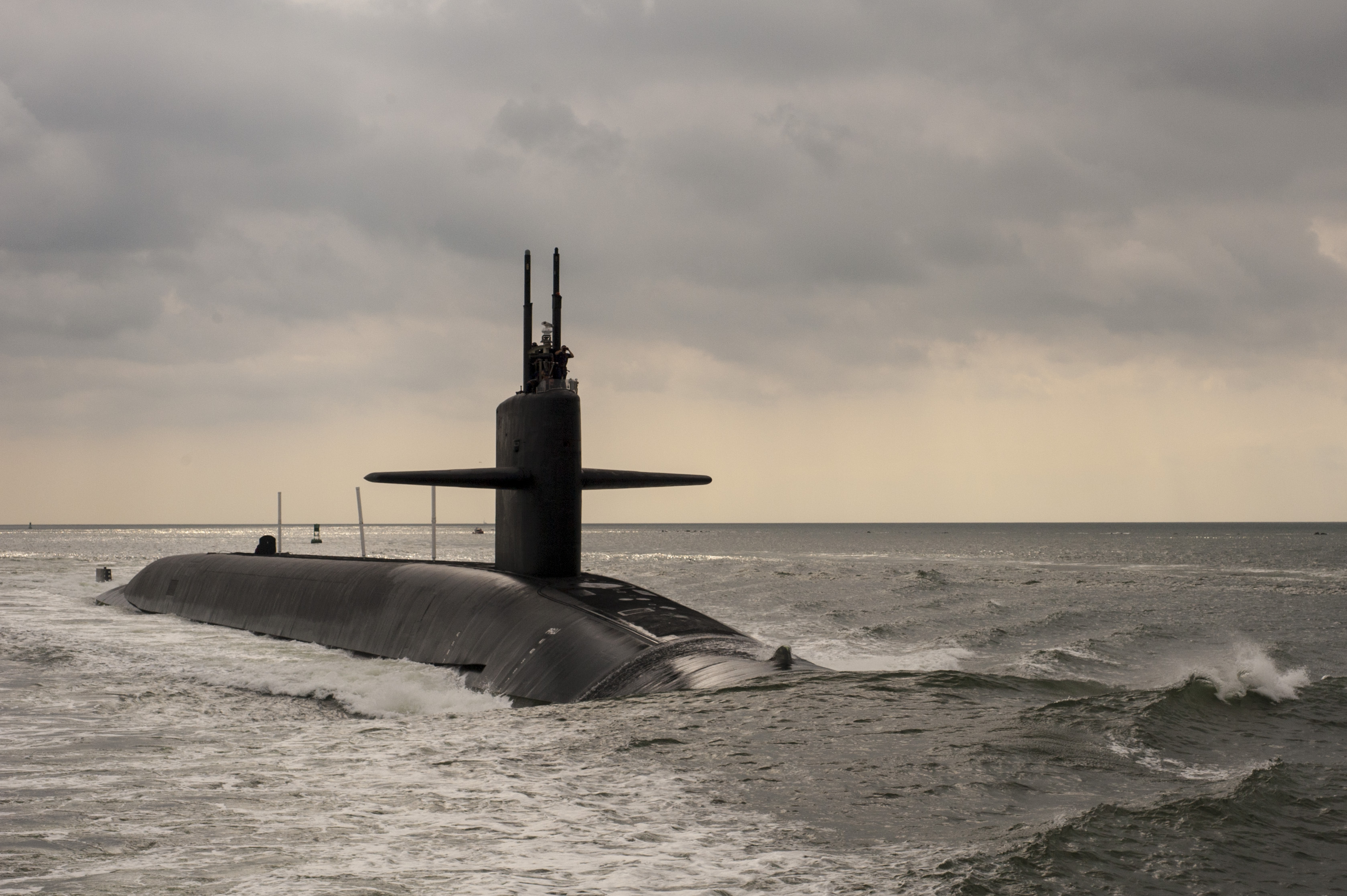 KINGS BAY, Ga. (Aud. 1, 2012) The Ohio-class ballistic missile submarine USS Maryland (SSBN 738) transits the Saint Marys River. Maryland returned to Naval Submarine Base Kings Bay following routine operations. (U.S. Navy photo by Mass Communication Specialist 1st Class James Kimber/Released) 120801-N-FG395-015 Join the conversation navylive.dodlive.mil